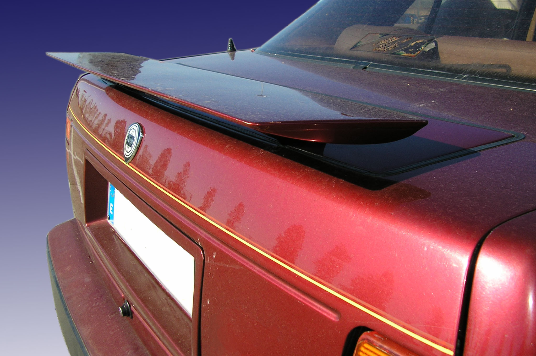 Extendable rear spoiler of a Lancia Thema 8.32.